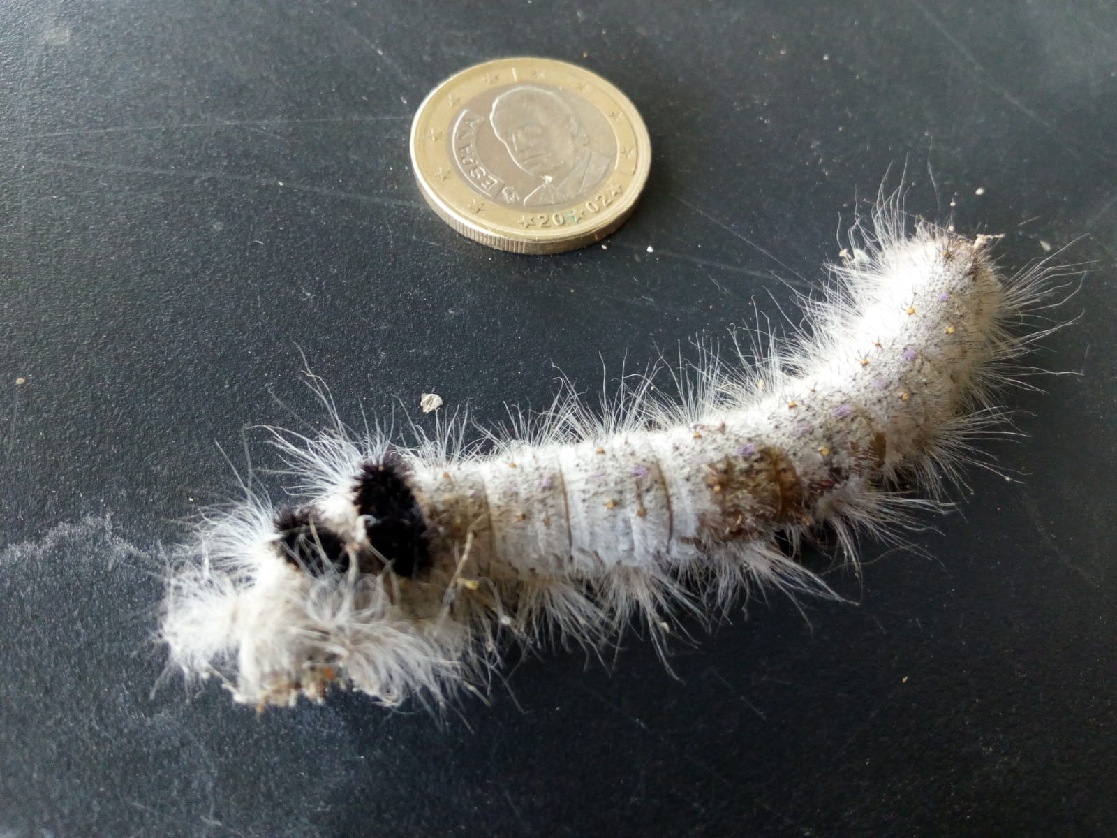 Streblote panda caterpillar